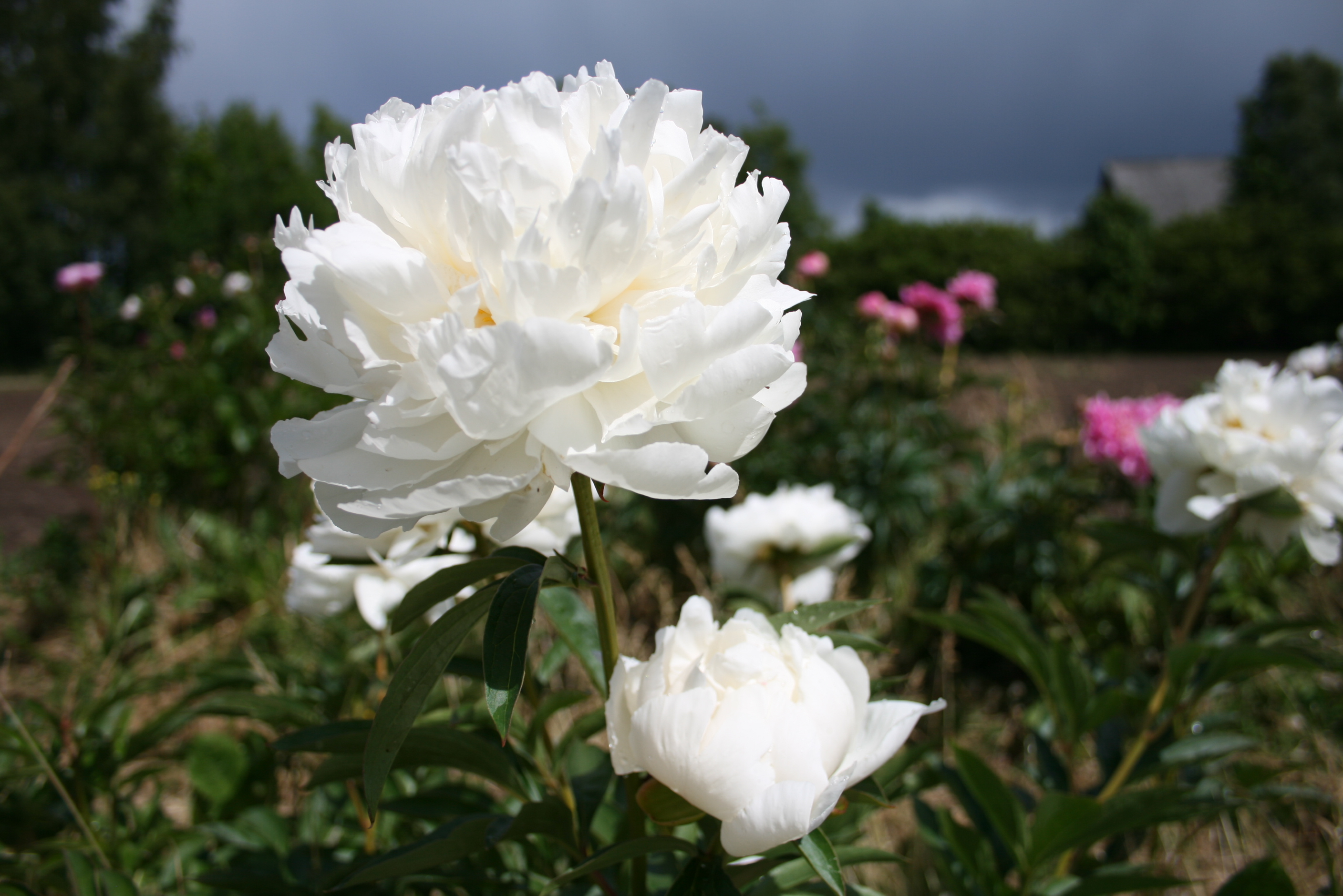 Paeonia lactiflora 'Bowl of Cream'